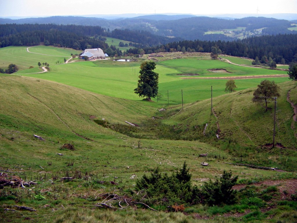 View from Rohrhardsberg down the upper Elz valley with Schänzlehof, Black Forest, Germany